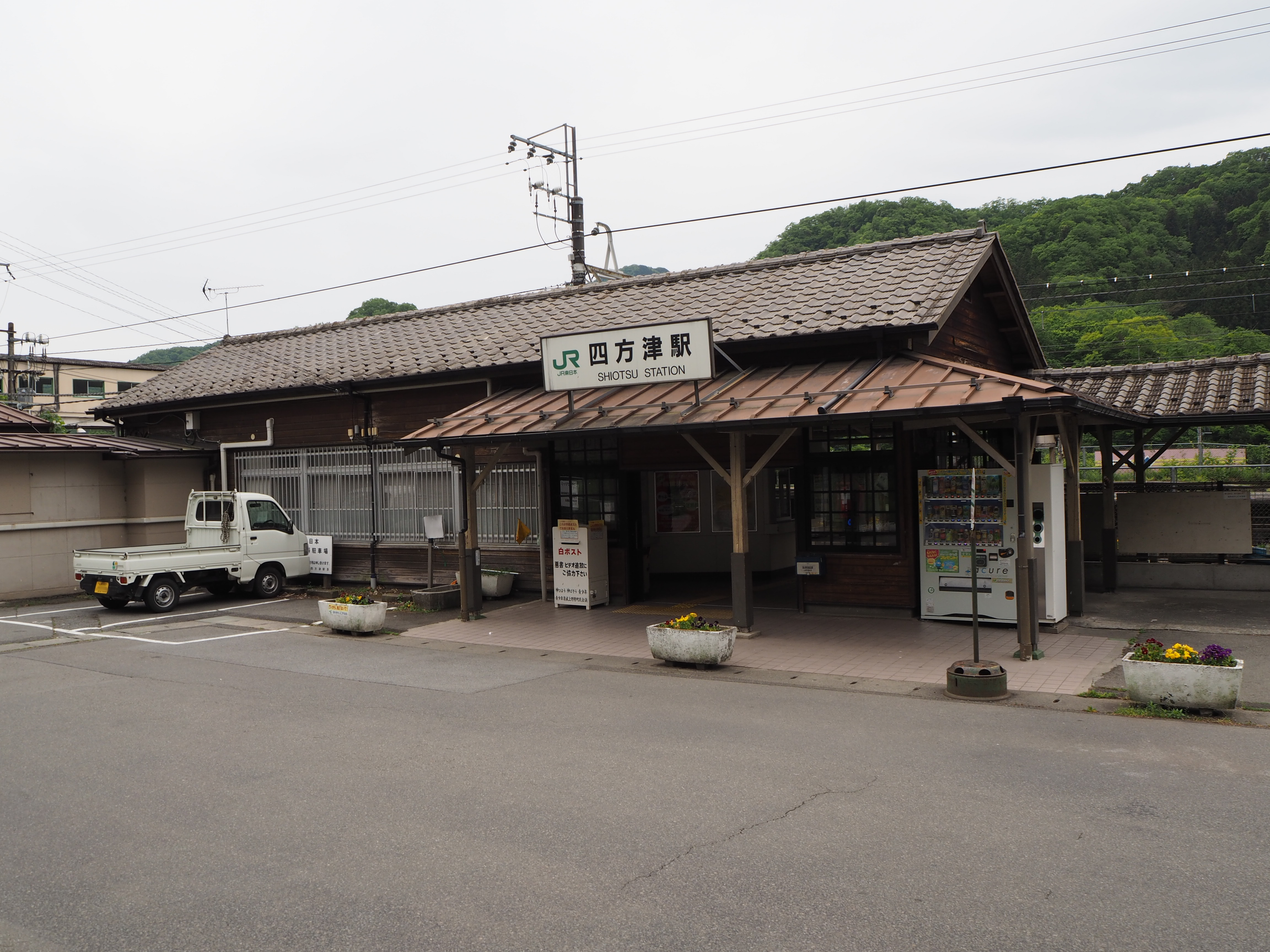 Shiotsu Station